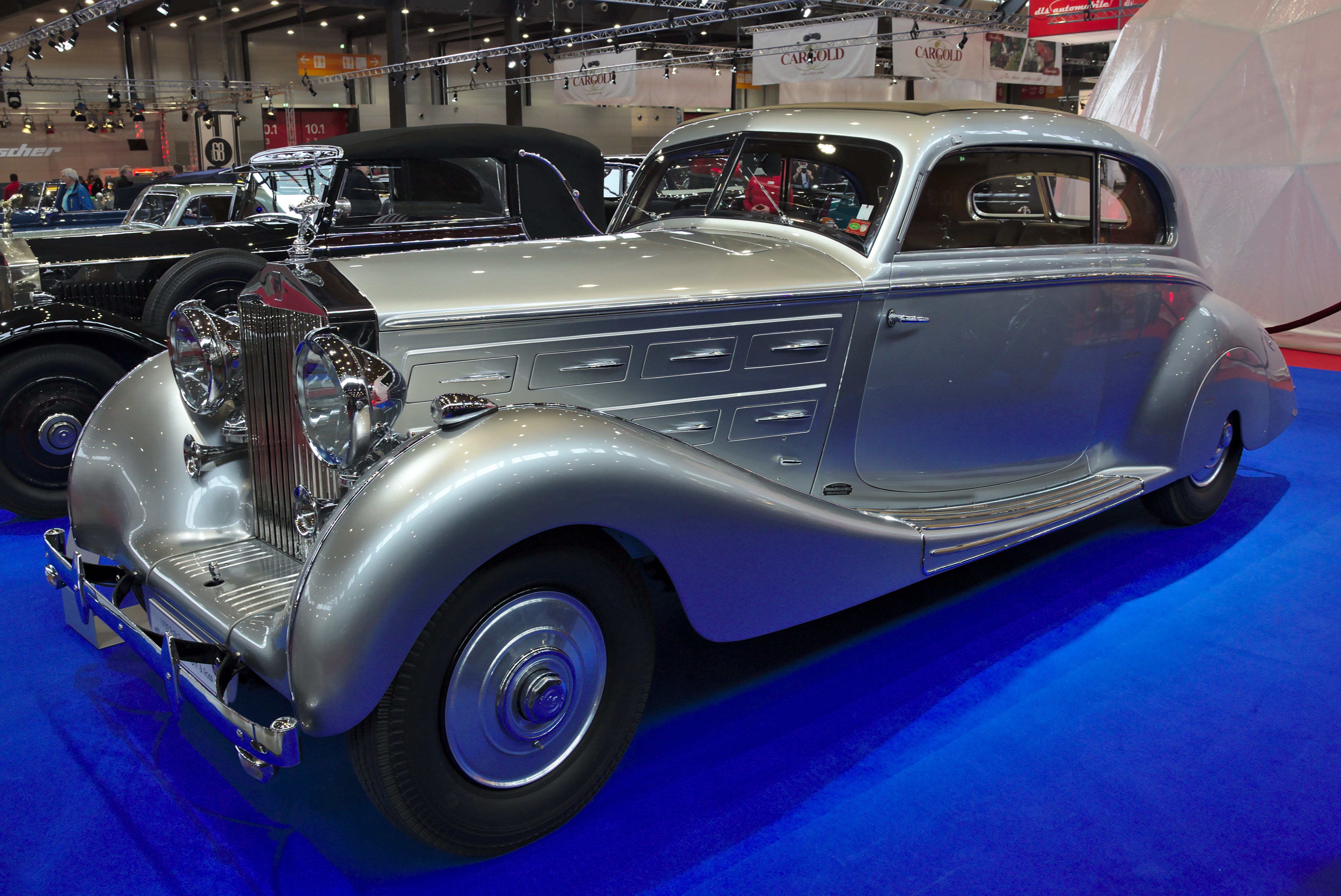 Rolls-Royce Wraith at Retro Classics 2018